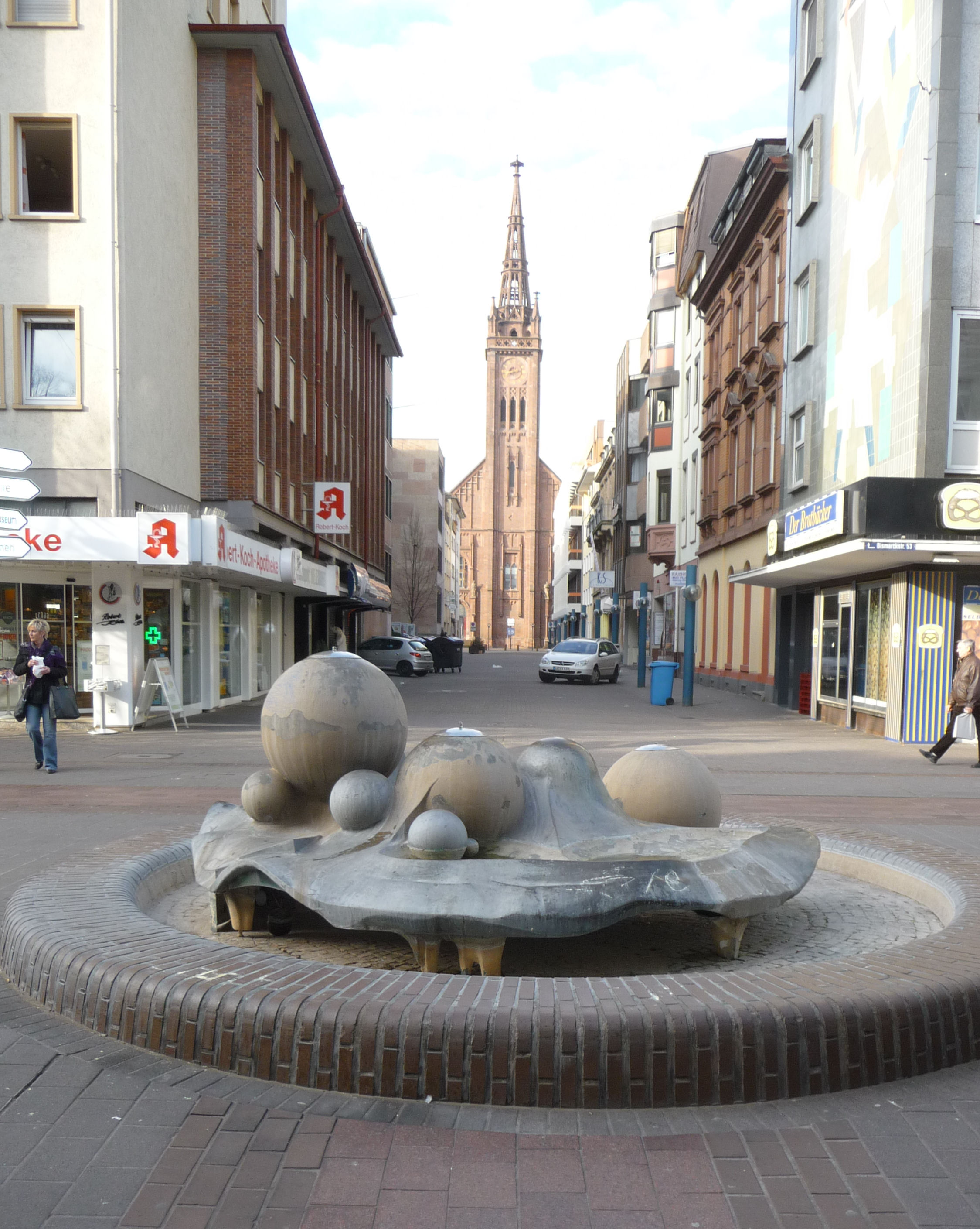 Sculpture Mittwochstreff (1977) by Ernst W. Kunz in Ludwigshafen, Germany